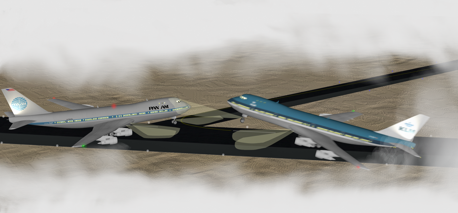 A CGI rendering of the two 747s that were destroyed in the Tenerife Disaster, just before the collision.Please note that I have removed some fog so the aircraft can actually be seen.